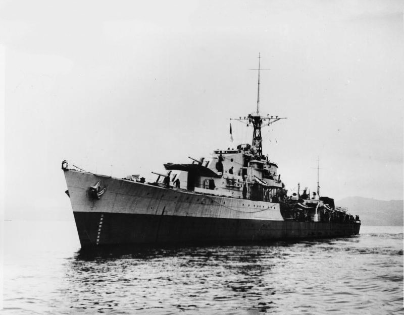 Photograph of British C Class destroyer HMS Cassandra, on completion.